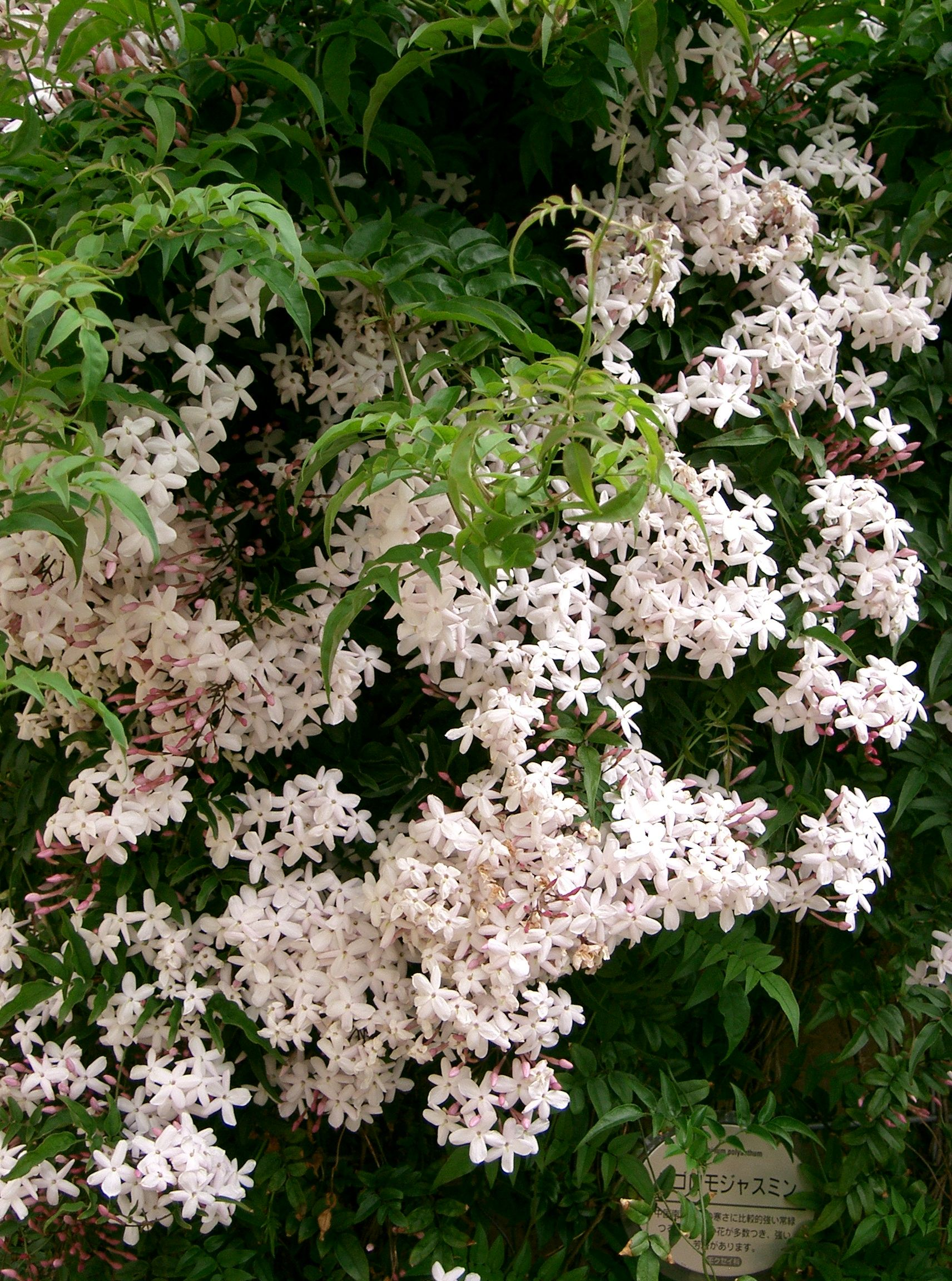 Scientific name Jasminum polyanthum